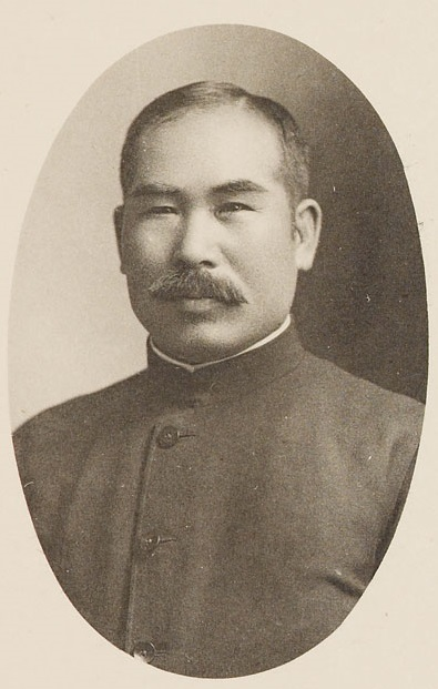 This photo is Professor NAGAI Domei in 1914. This photo is in Ochanomizu University Digital Archives.